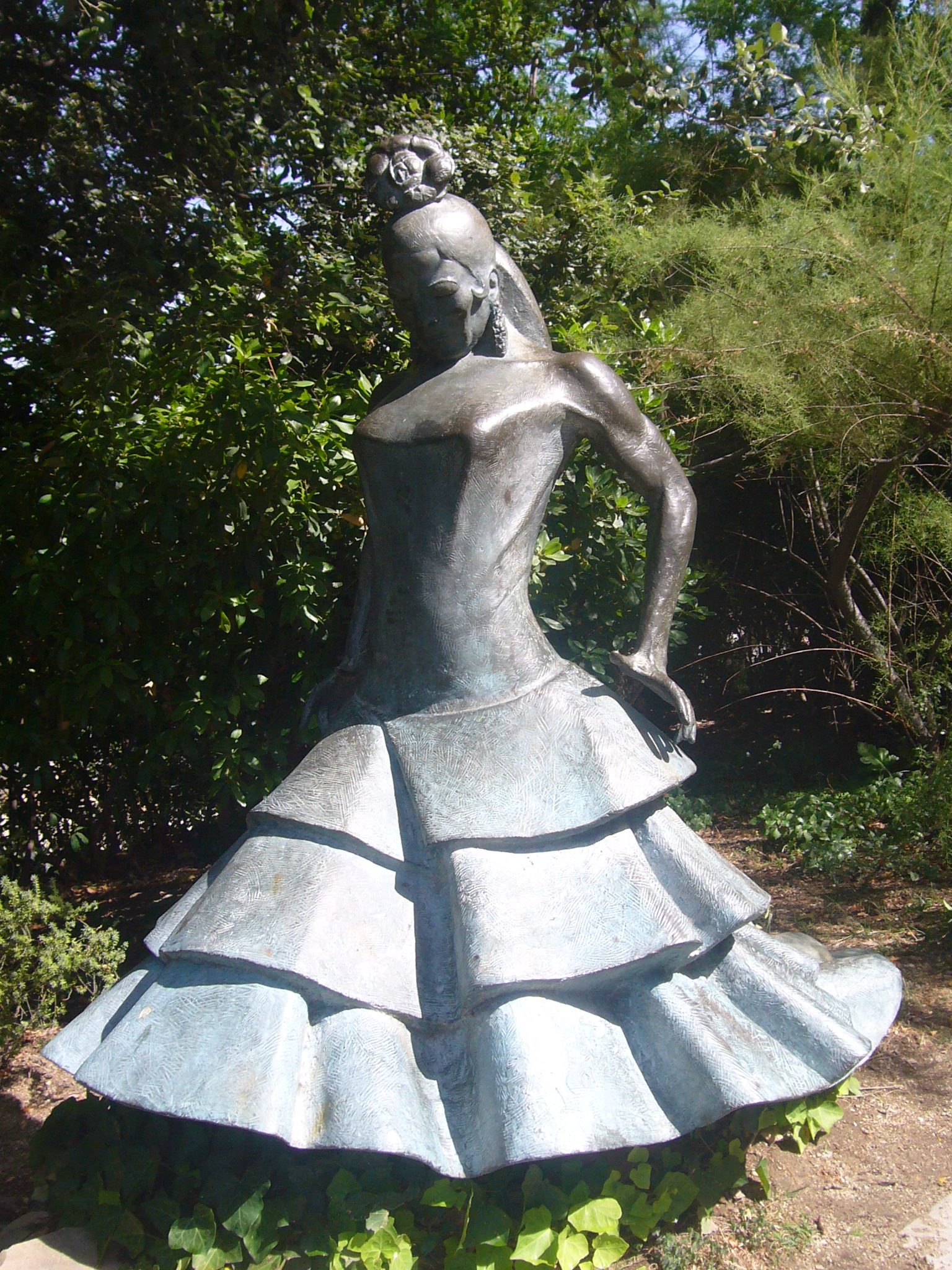 Gardens of Joan Brossa.